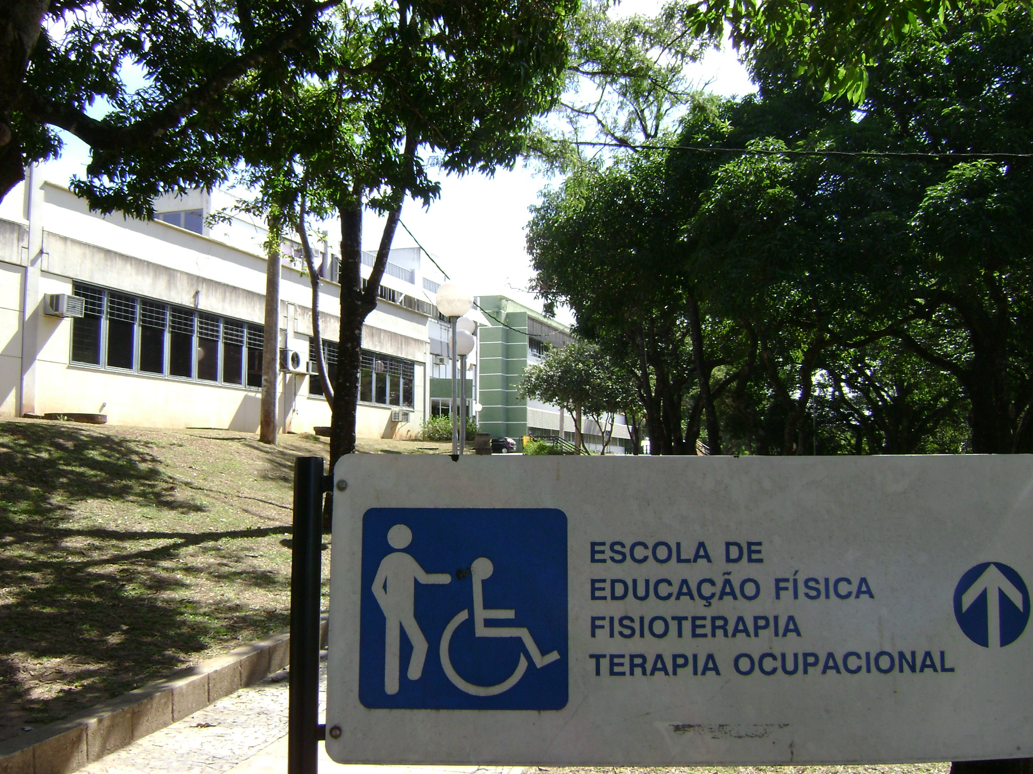 Edifício da Escola de Educação Física, na UFMG.